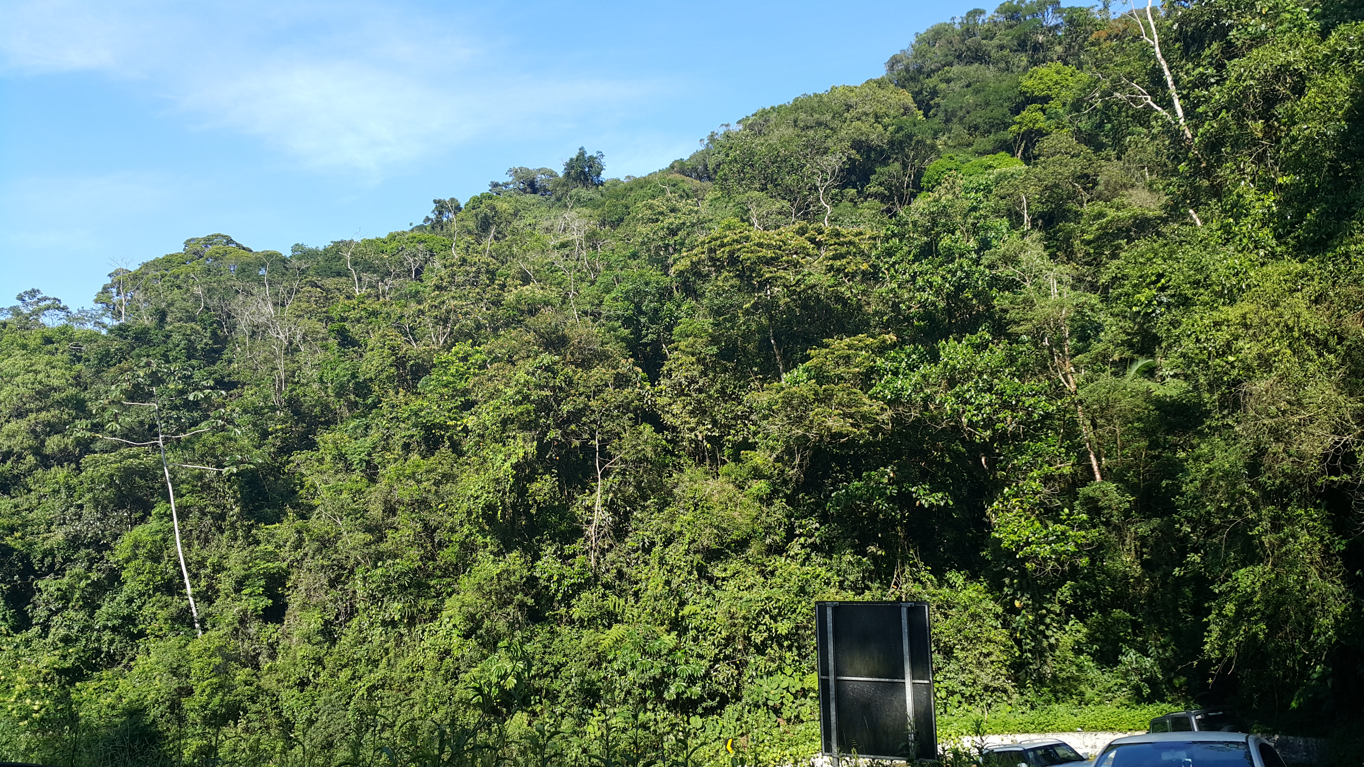 Atlantic forest vegetation, around the mountainous stretch of the Oswaldo Cruz highway. Serra do Mar State Park (Picinguaba core), Ubatuba, São Paulo, Brazil.